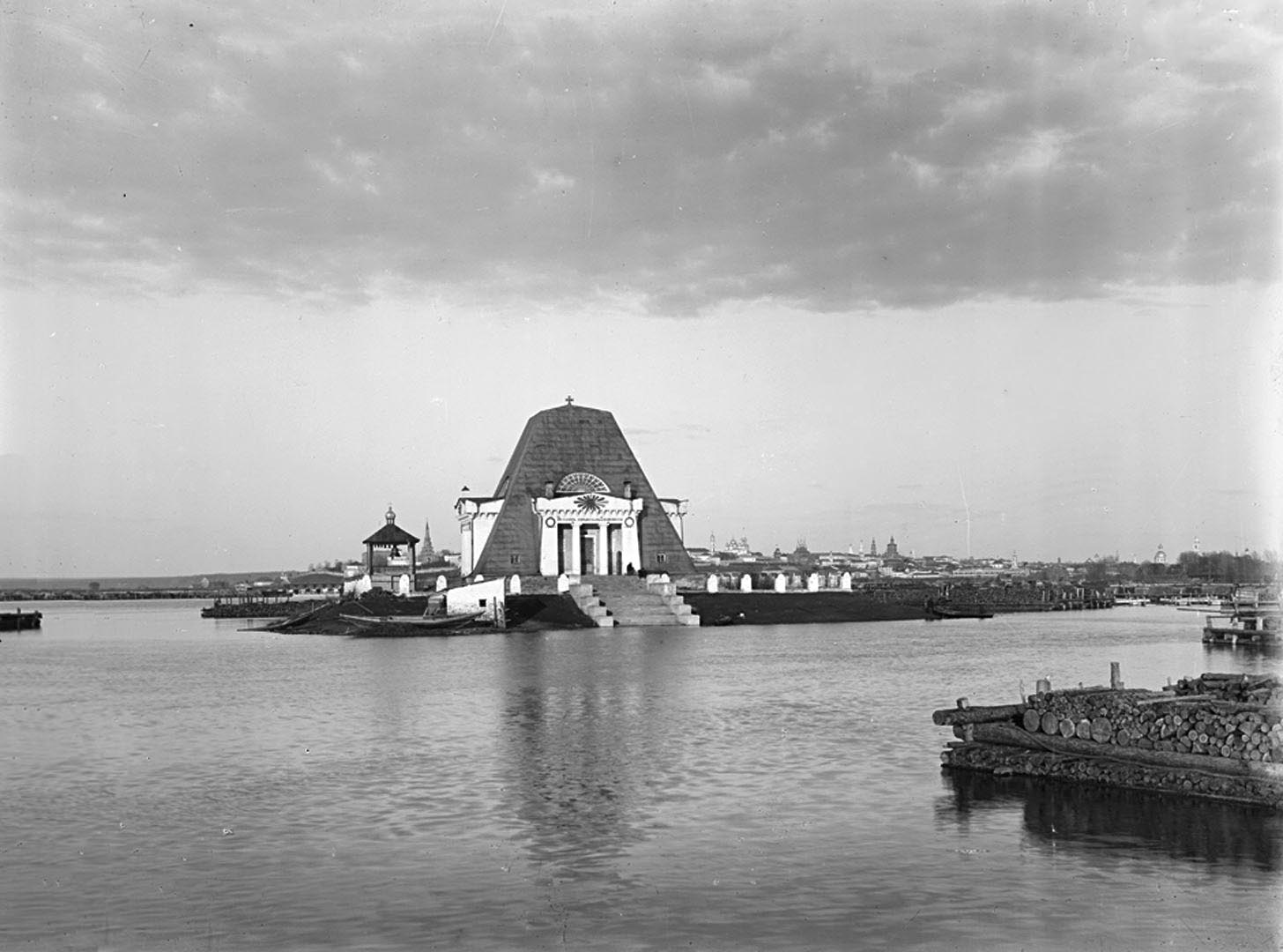 Saviour church in Kazan before 1917